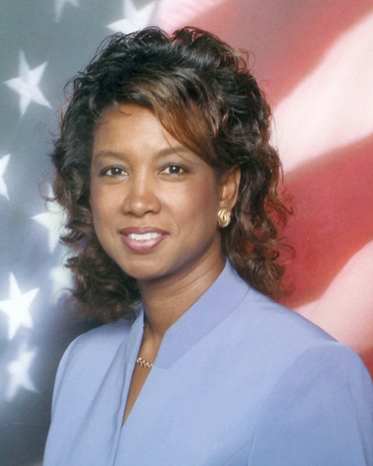 Photo of: Jennifer Carroll (born August 27, 1959) is a Florida Republican politician, business woman, and retired Lieutenant Commander in the United States Navy who currently serves as the 18th Lieutenant Governor of Florida. Previously, she served as the District 13 Representative in the House of Representatives of the State of Florida. She was first elected to the Florida House in a special election in April 2003, leaving the seat in 2010